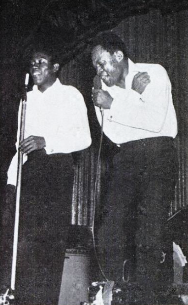 Trade ad for Sam & Dave's single "Said I Wasn't Gonna Tell Nobody". To better adapt it to his respective Wikipedia article, the ad was cropped and cleaned in a graphics editing program. The original can be viewed at the source below.